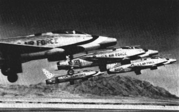 Four North American F-100C Super Sabres of the U.S. Air Force "Thunderbirds" aerobatics team taking off, probably at Nellis Air Force Base, Nevada (USA). The "Thunderbirds" converted to the F-100C in June 1956. Note the serial numbers painted on the aft fuselages.